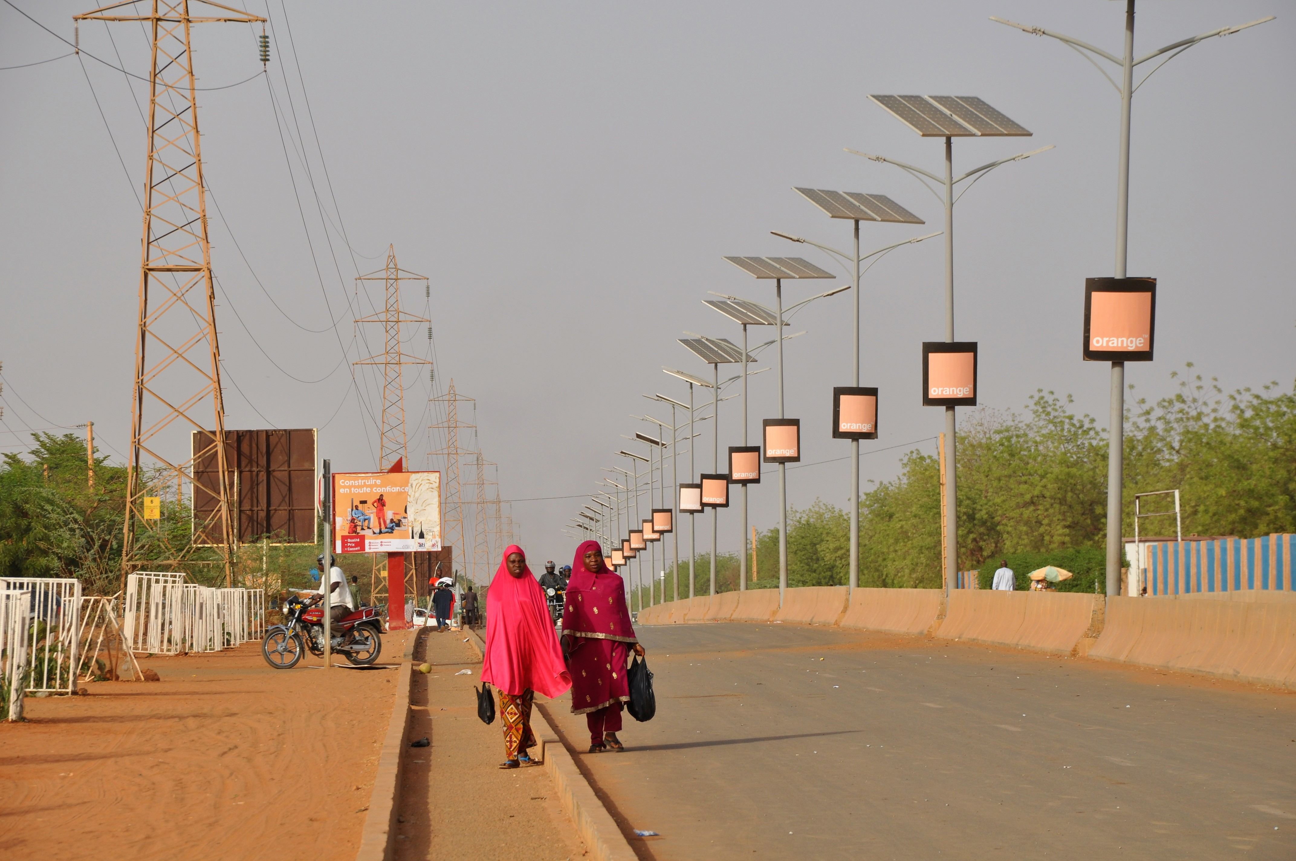 Boulevard Tanimoune (Rue CI-85) in Niamey, Niger (Cité Fayçal neighborhood). Note the solar powered street lights.